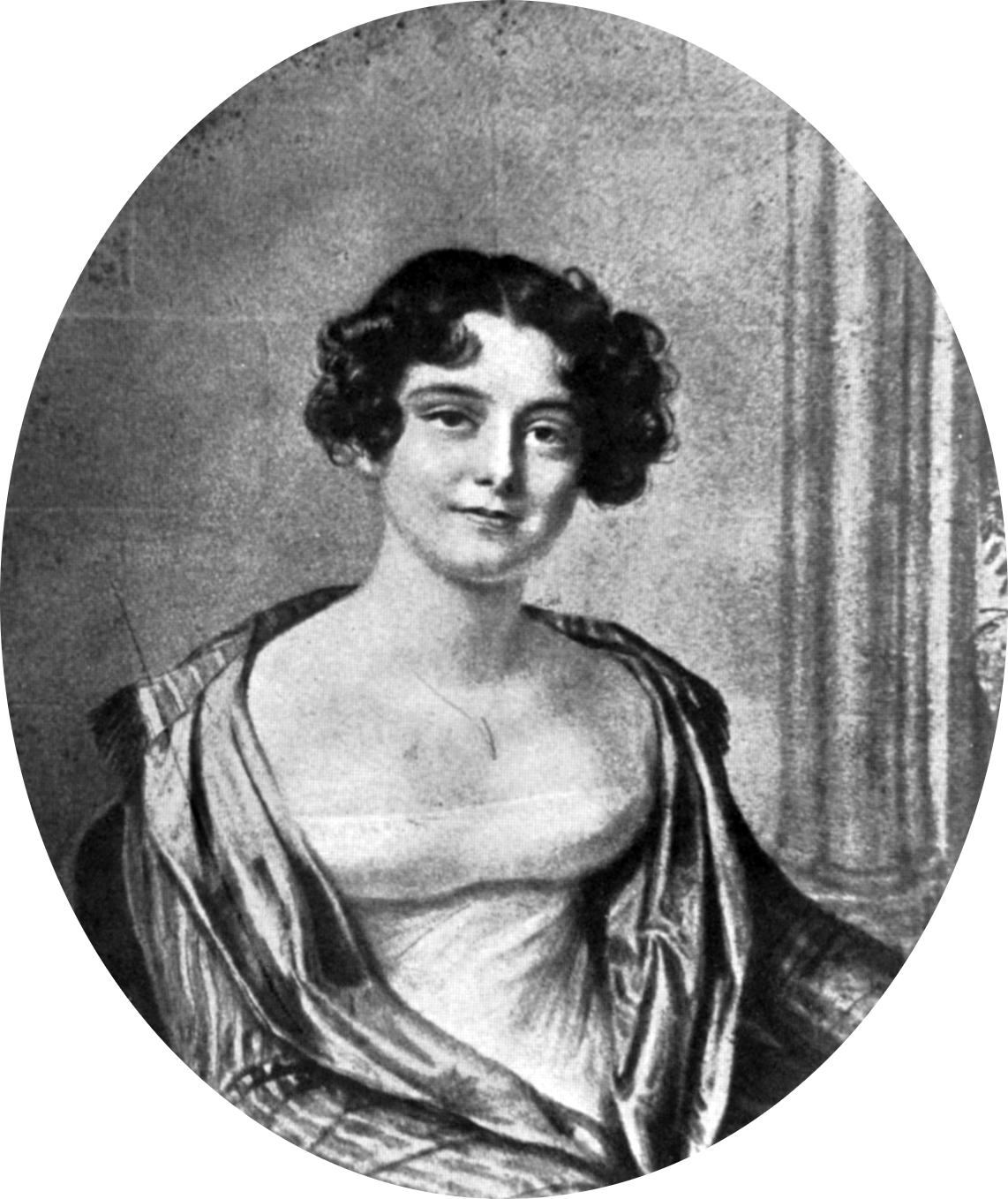 Jane Griffin, aged 24. Later Lady Jane Franklin. Lithograph by Joseph Mathias Negelen (18 Jun 1792 - 11 Jun 1870), after 1816 chalk drawing by Amelie Romilly (21 Mar 1788 - 2 Dec 1875).